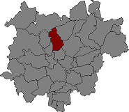 Location of Castellnou de Bages in Bages